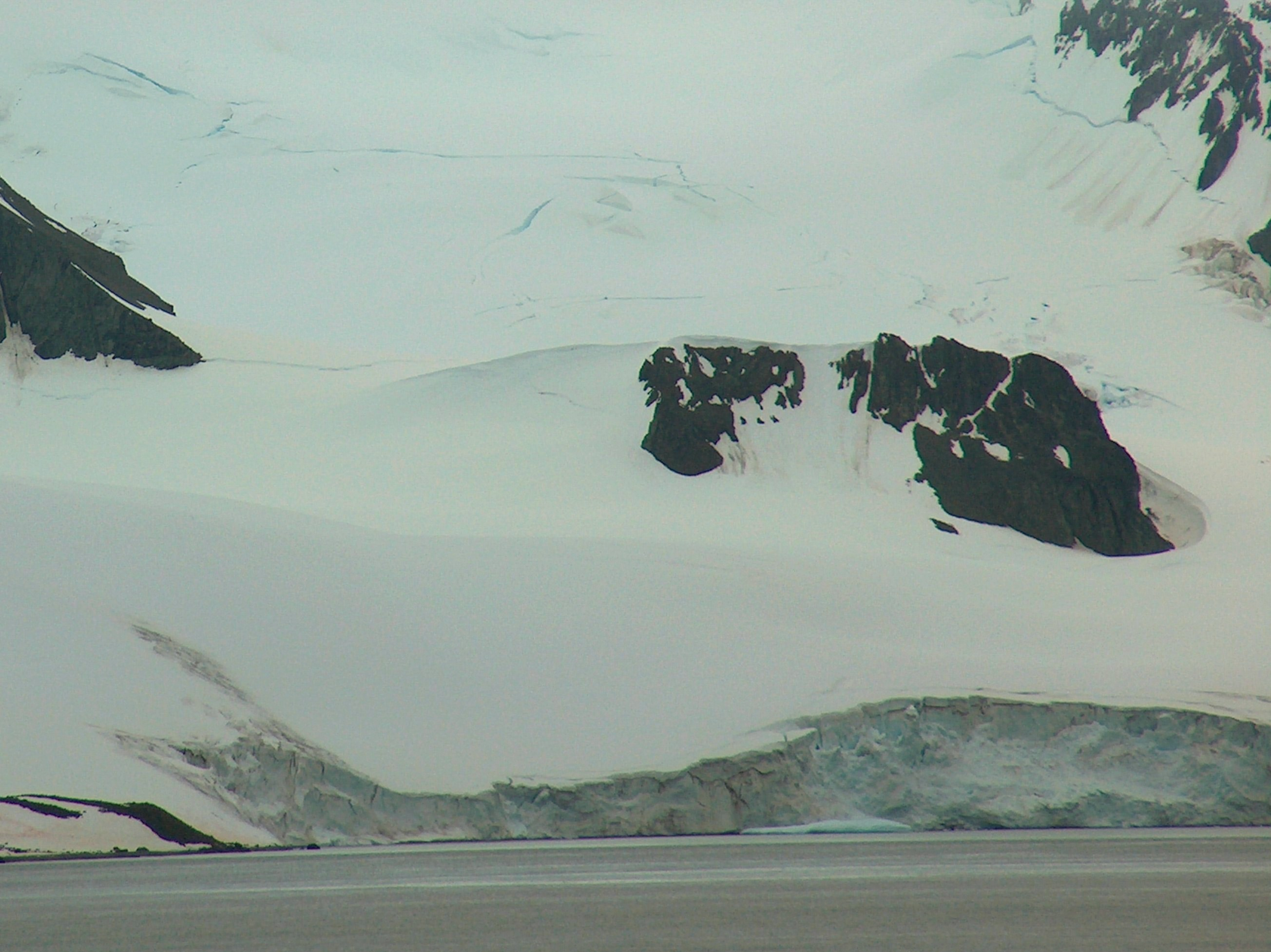 Basapara Hill, Antarctica